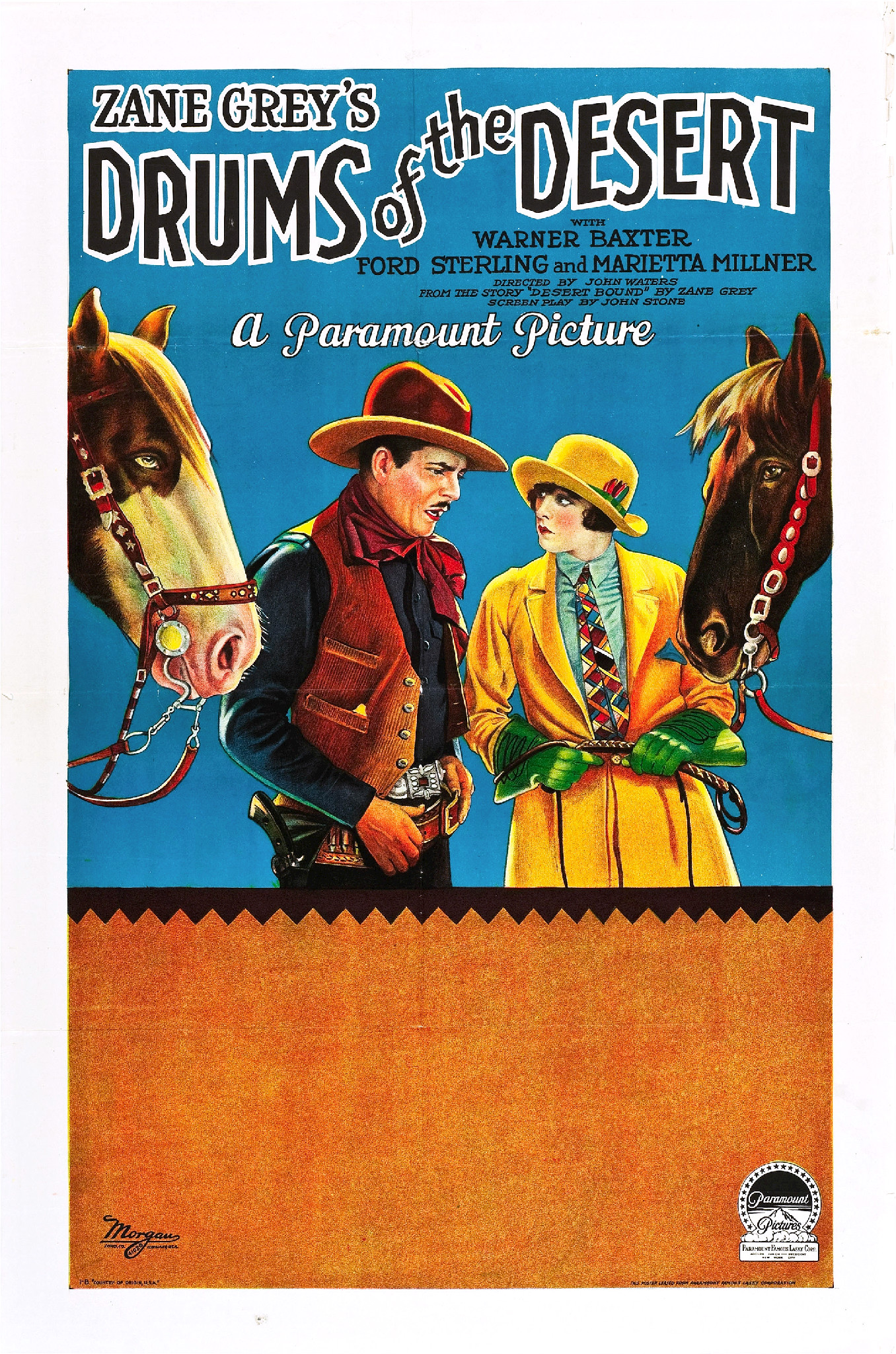 Poster for the 1927 film Drums of the Desert. The item has no copyright markings on it as can be seen in the links above. At bottom left is I-B Country of Origin USA and the logo of the MOrgan Litho Company, Cleveland--they printed the poster. At bottom right is This poster leased from Paramount Famous Lasky Corporation.